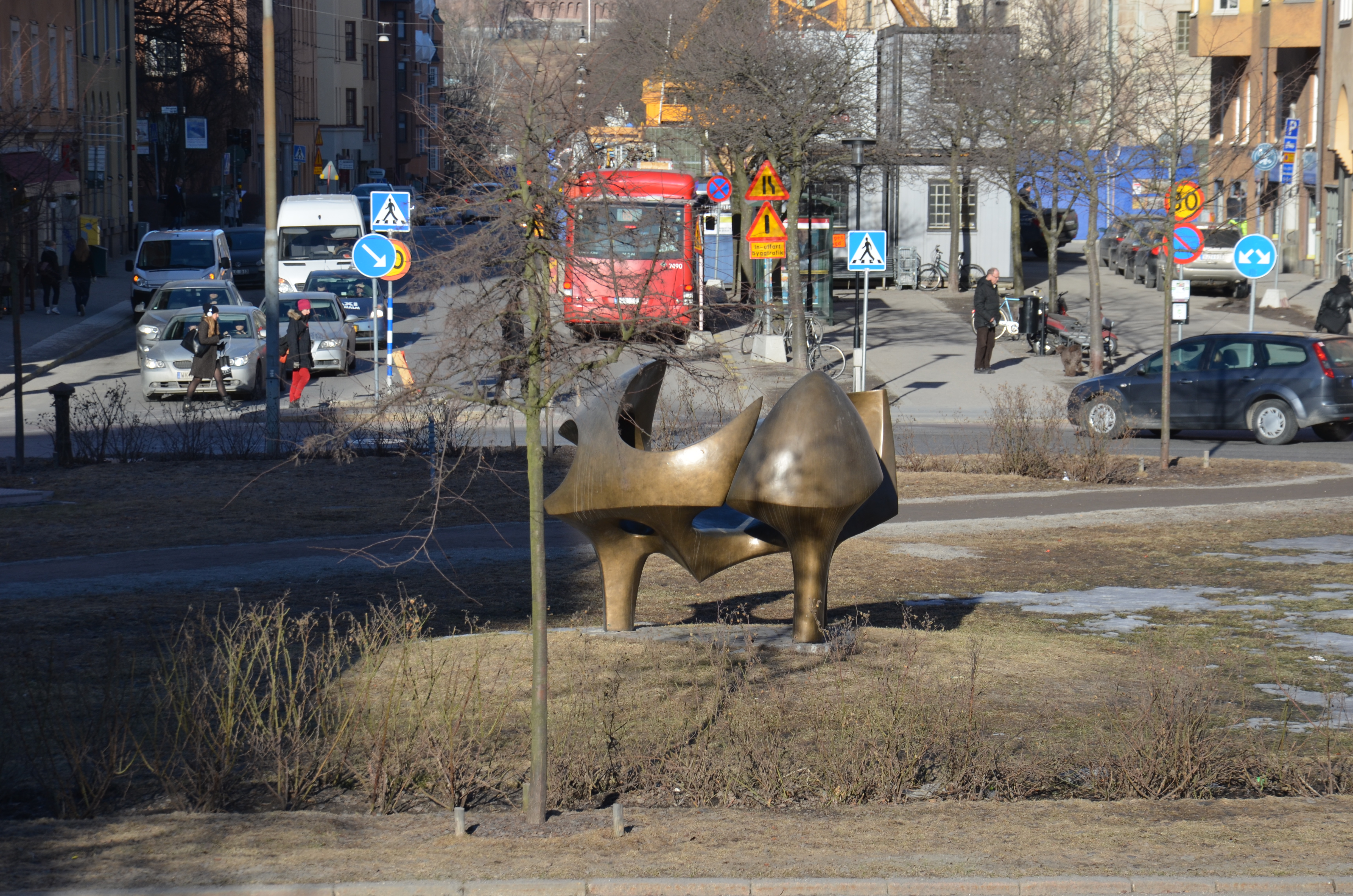 Förvandlingar av Christopher Gibson, 1984, Vanadisplan, Stockholm